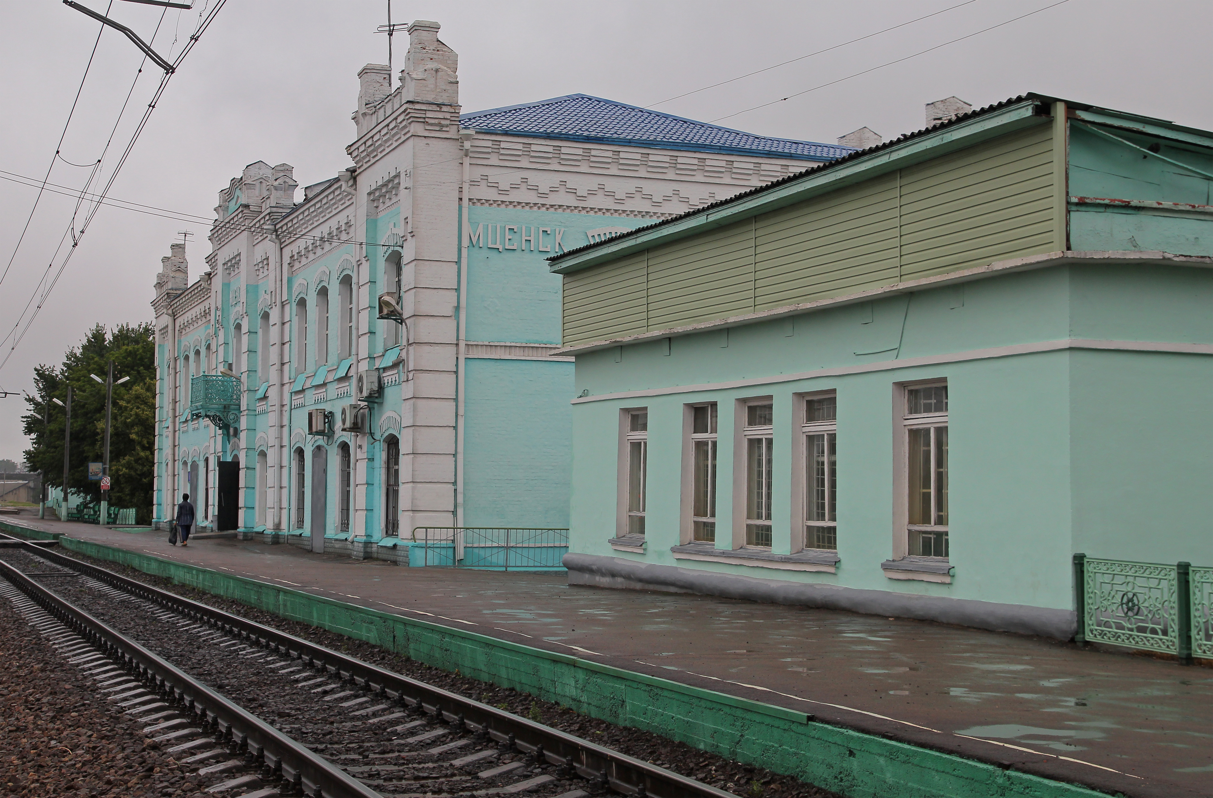 Train station with terminal in Mtsensk (Russia)